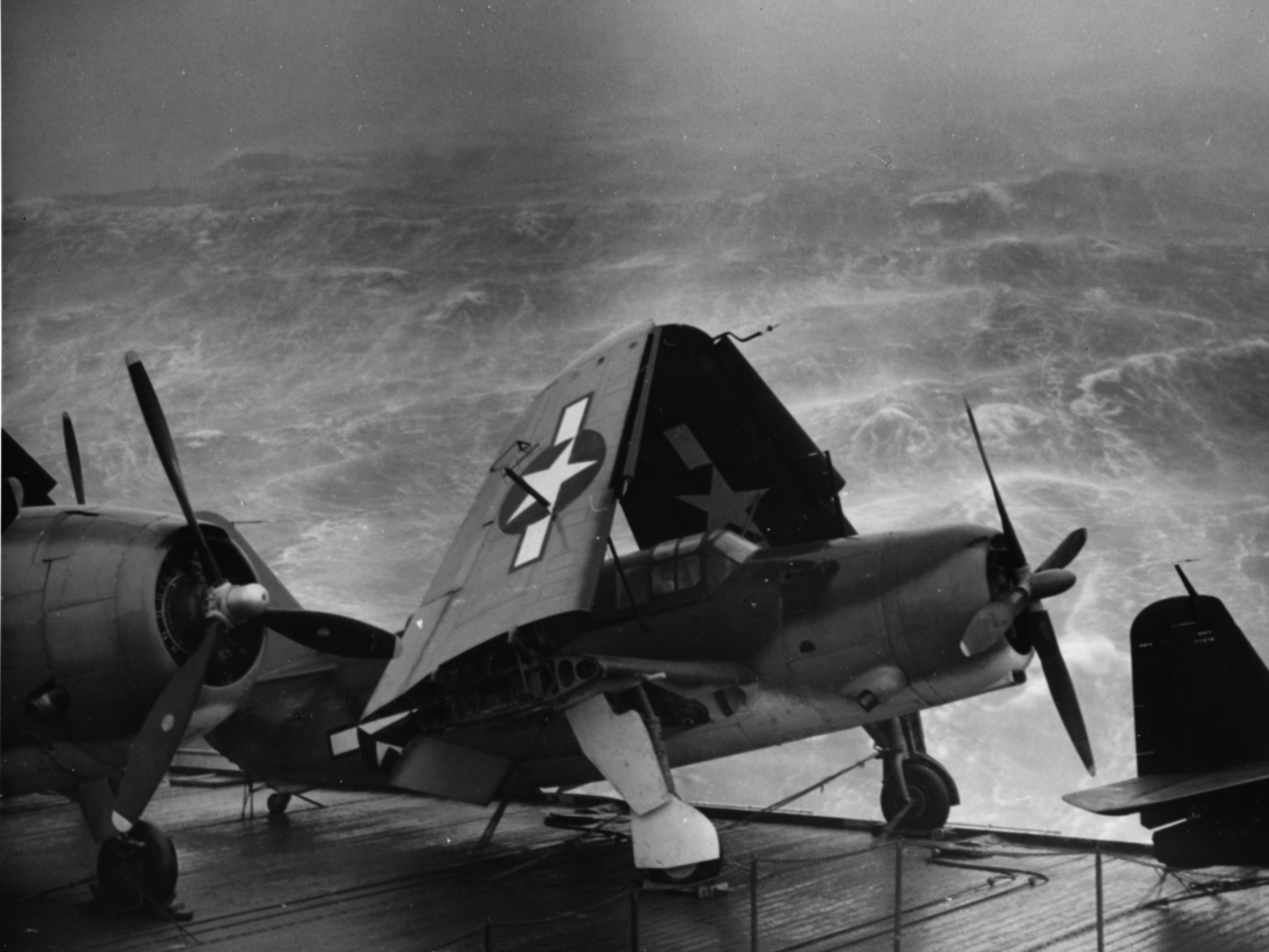 The U.S. Navy escort carrier USS Kwajalein (CVE-98) in a typhoon, circa in December 1944. Kwajalein was transporting aircraft, with a Curtiss SB2C-3 Helldiver visible in the center of the photograph.